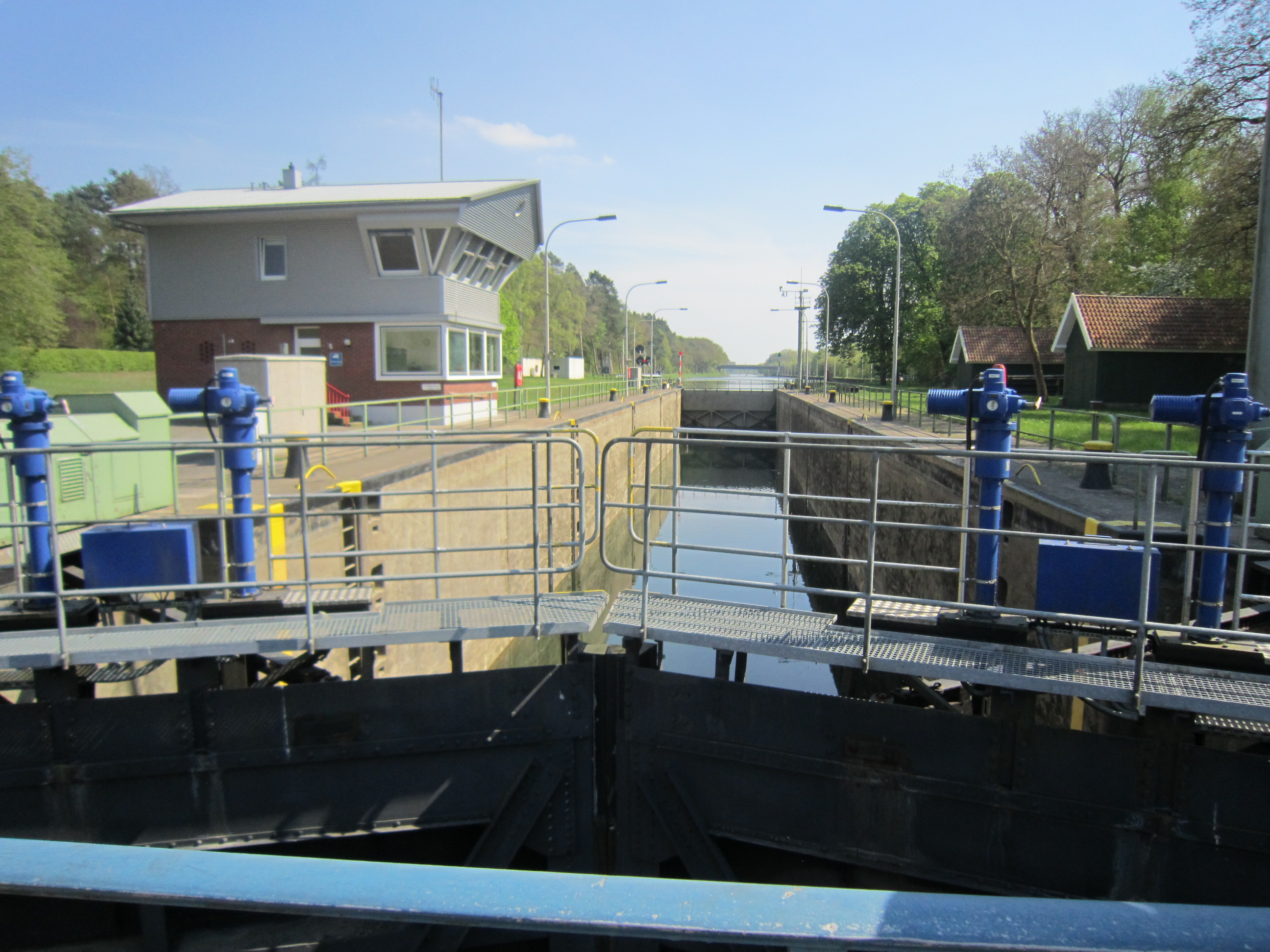 Canal lock Hollage in Wallenhorst near Osnabrück